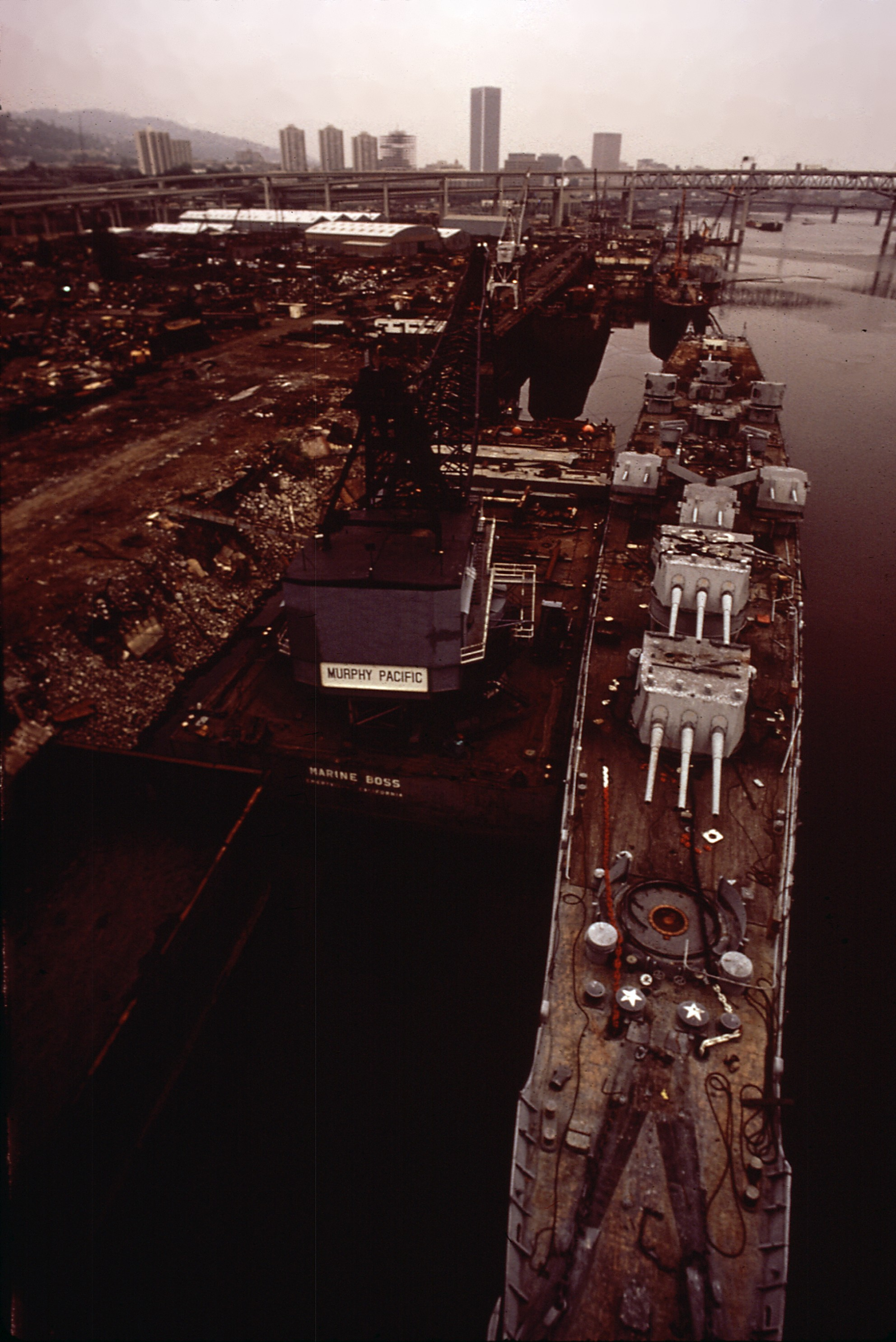 The U.S. Navy heavy cruiser USS Baltimore (CA-68) being scrapped at Zidell's Ship Wrecking Yard at Portland, Oregon (USA), in 1972.